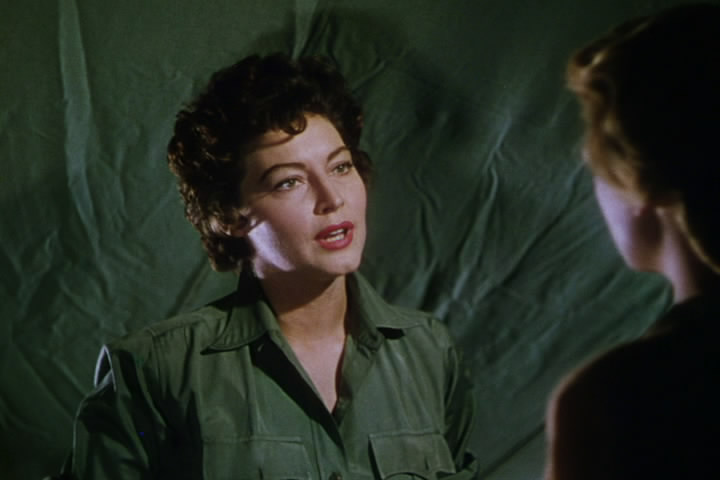 Screenshot of Ava Gardner from the trailer for the film Mogambo